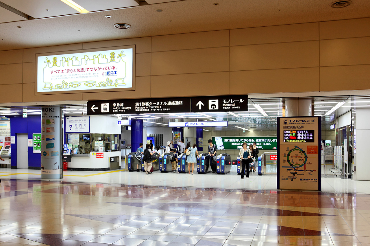 Haneda Airport Terminal 2 Station of Tokyo Monorail Haneda Airport Line